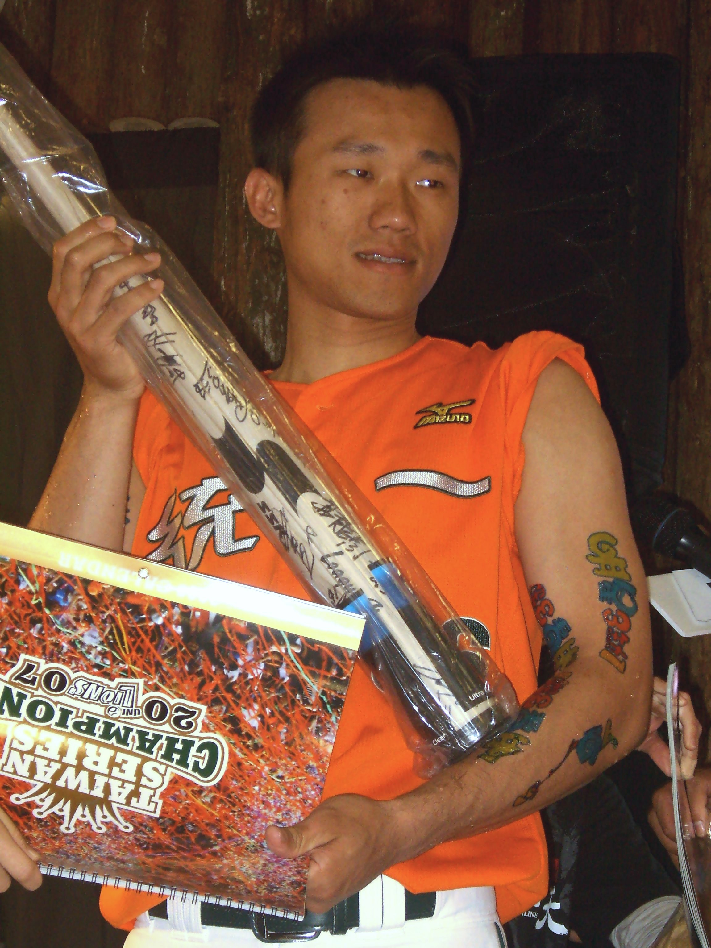 2008 Taipei Game Show: Fu-hao Liu from Uni-Lions at IGS booth.